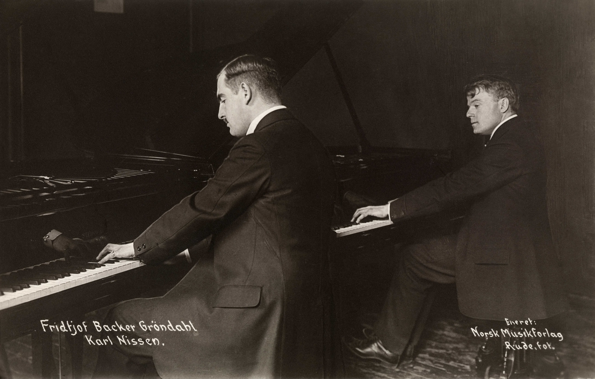 Fridtjof Bacher-Grøndahl and Karl Nissen ca. 1920